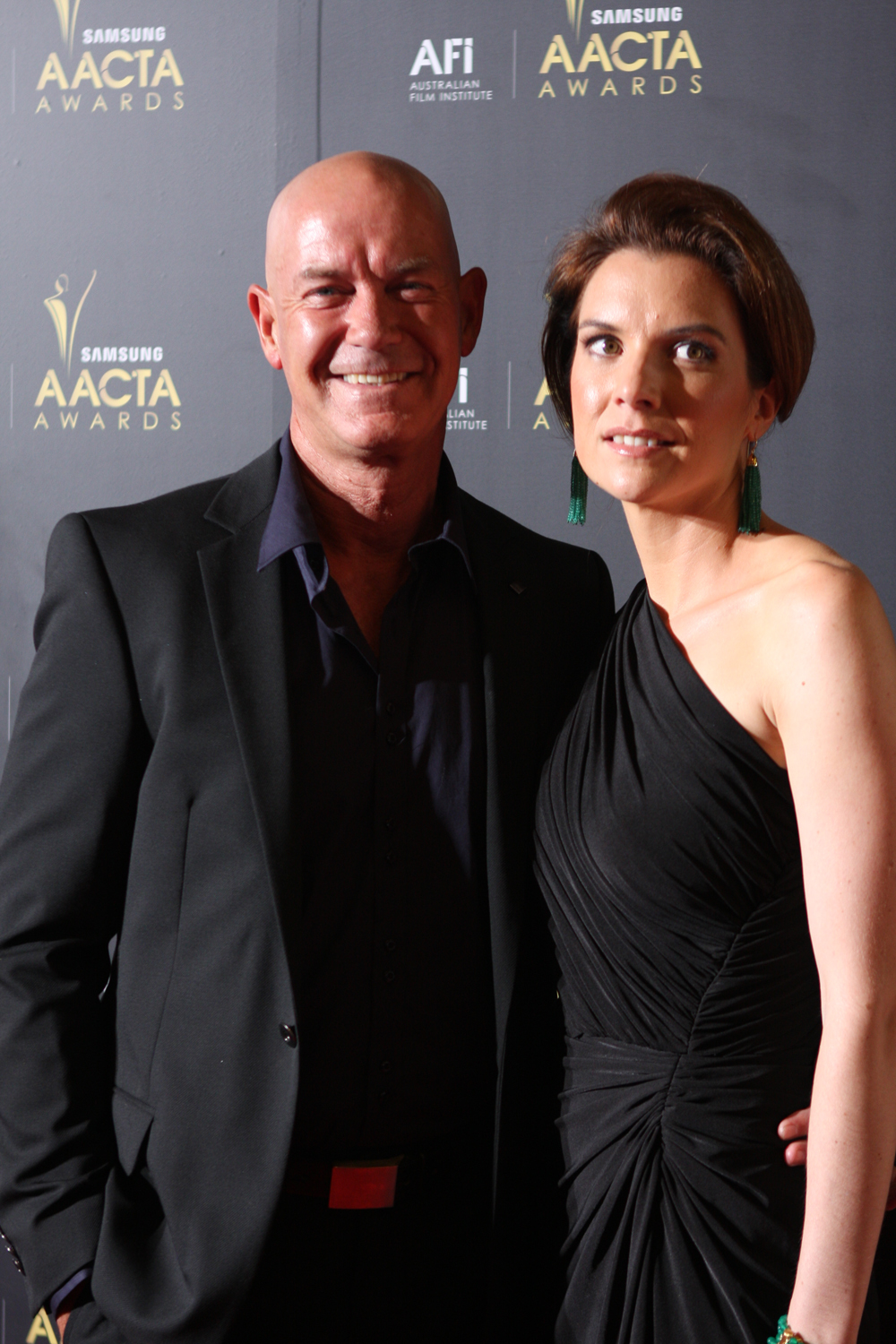 Gary Sweet at the 2012 AACTA Awards